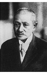 Antei Tashiro, Japanese Botanist.